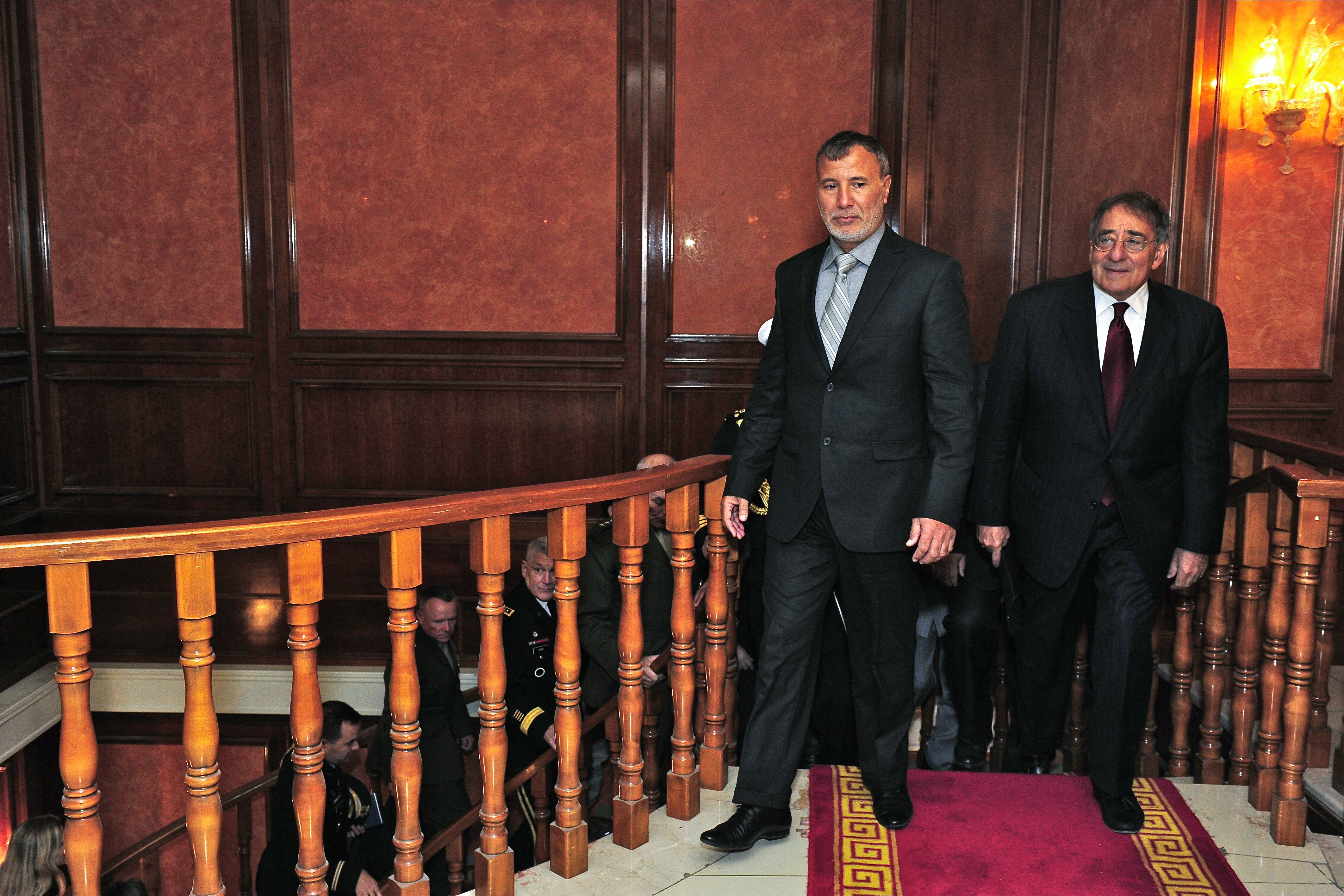 U.S. Defense Secretary Leon E. Panetta, right, walks with Libyan Minister of Defense Usama Al-Jwayli (Osama al-Juwaily) in Tripoli, Libya, Dec. 17, 2011. Panetta said the United States is ready to help Libya whenever the new government identifies its needs.